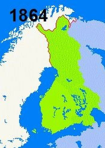 Border changes in Finland 1864